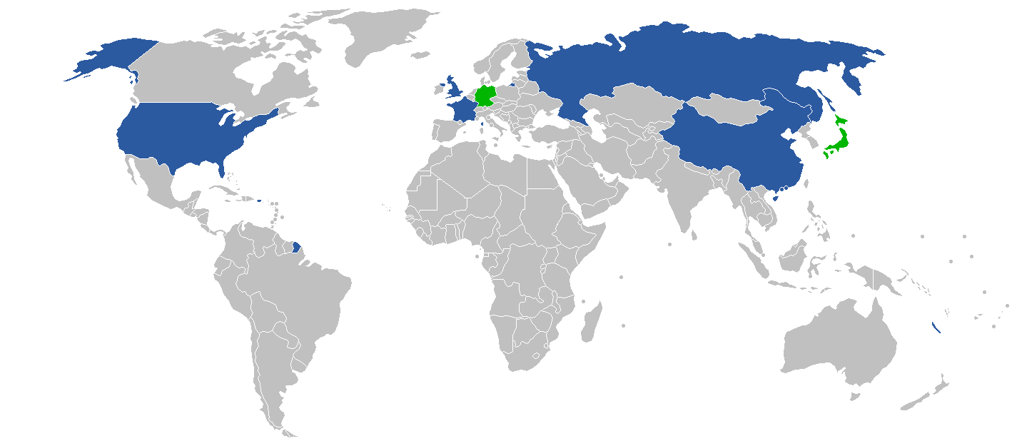 Regional Powers for the Regional Power article. Great powers (with Security Council vetoes): People's Republic of China, France, Russia, United Kingdom and United States of America. Great powers without Security Council vetoes: Germany, Italy and Japan.